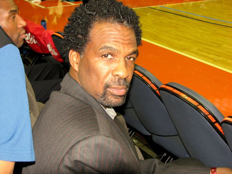 Charles Oakley, former National Basketball Association (NBA) player